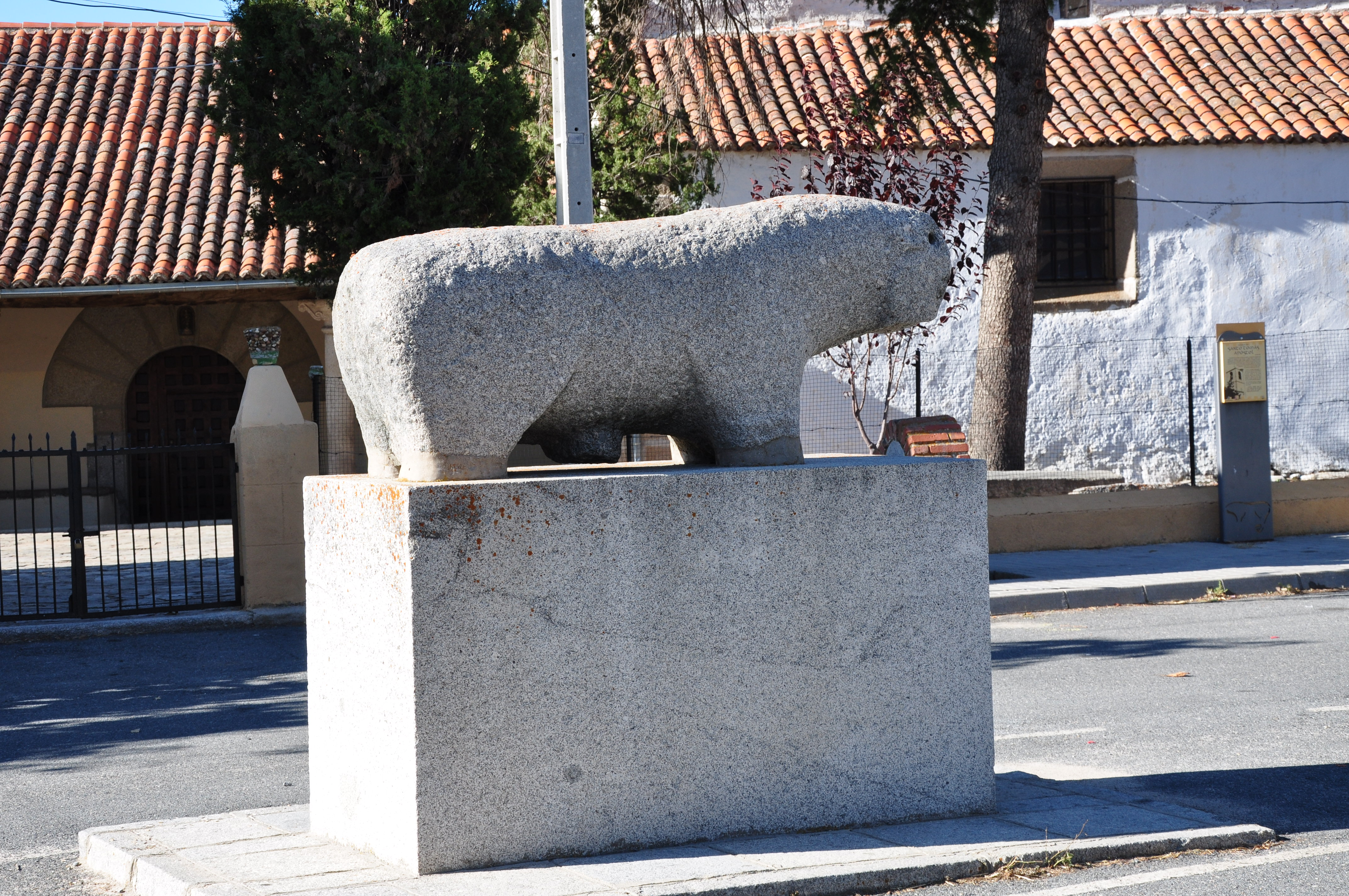 "Verraco" of Ulaca in Solosancho, province of Ávila, Spain. Vettone´s sculpture.